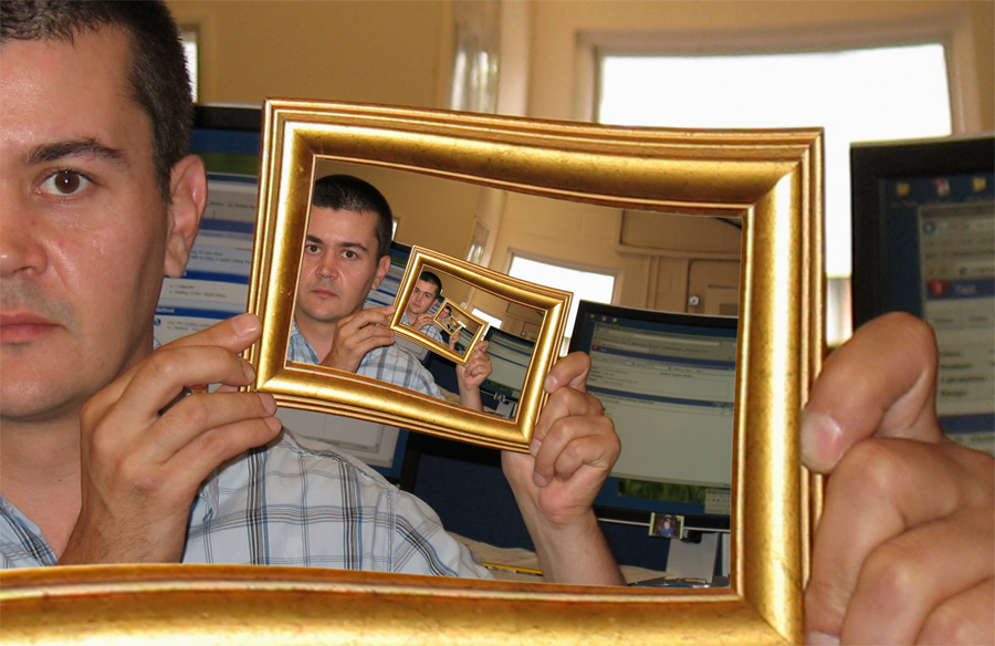 This is an example of the Droste effect. This image was created using Gimp and Mathmap (and a little Photoshop preparation). For the original image, and links to the originator of this method, please visit